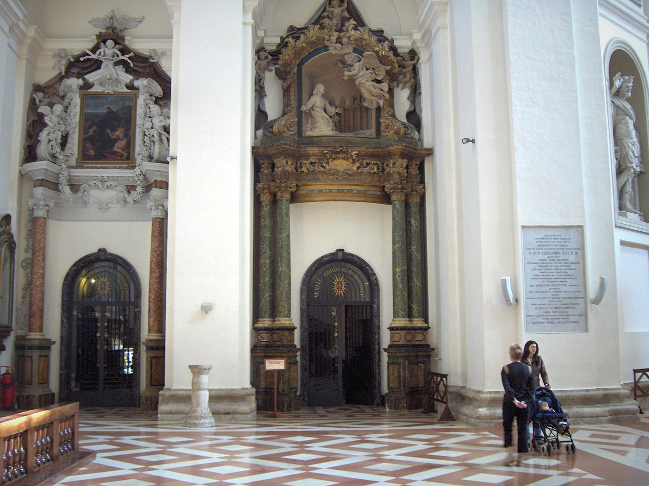 Entrance ot the Sacristy; Basilica of Santa Maria degli Angeli, Assisi, Italy